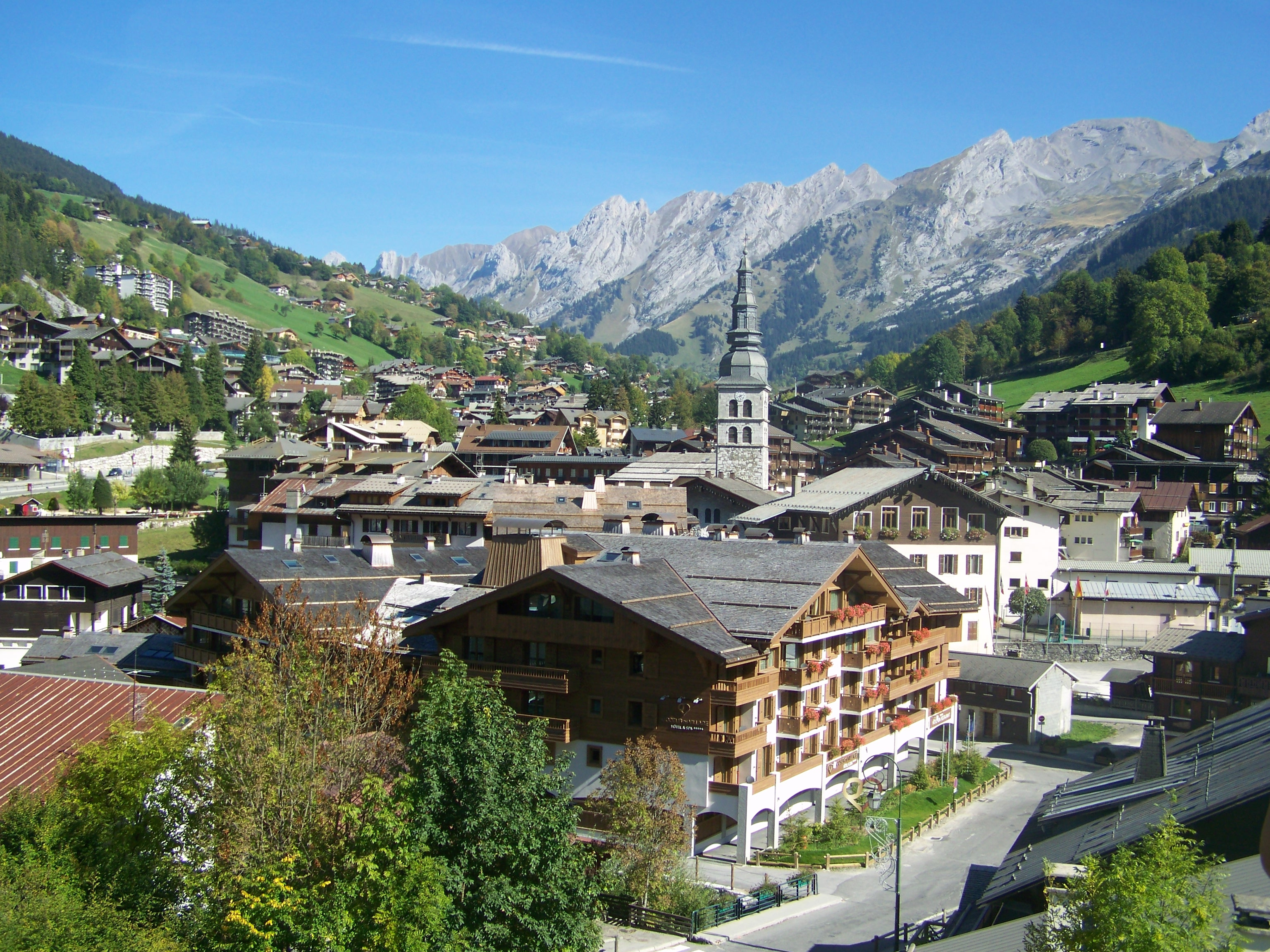 Panoramic view of village of La Clusaz in Haute-Savoie, France.